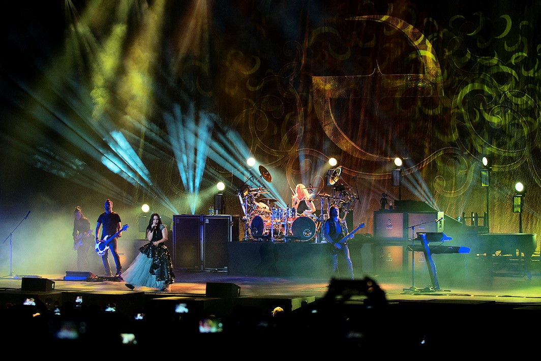 Evanescence performing live at Arena di Verona Open Air Festival - Verona, Italy on Monday September 2nd, 2019.